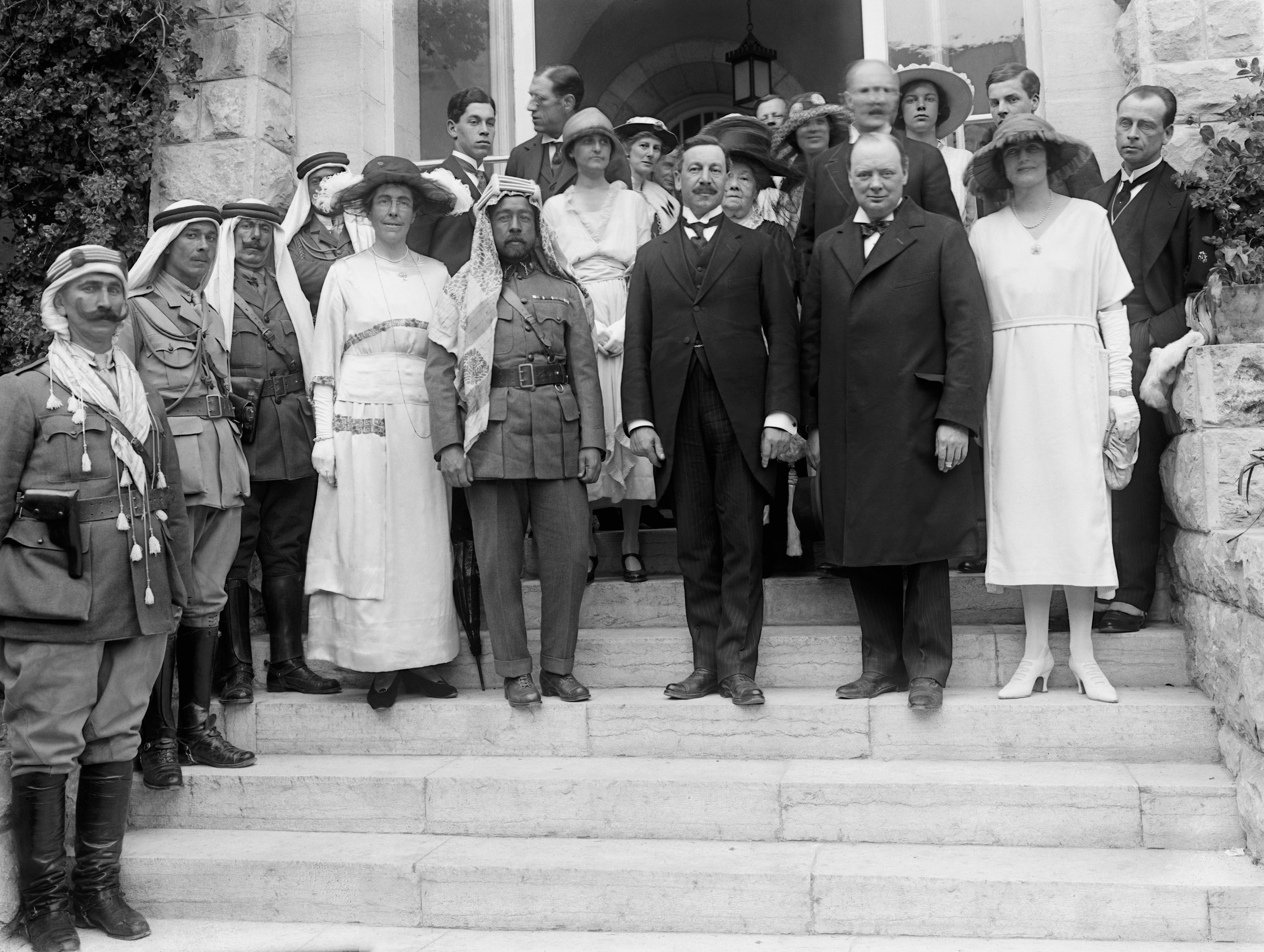 Mr. and Mrs. Winston Churchill at Government House reception on March 28th 1921 in Jerusalem, Palestine. Emir Abdullah of Transjordan and Sir Herbert Samuel on steps at left of Churchill. Front row from left to right: Colonel Aref Al-Hassan Colonel Fu'ad Sleem General Ghaleb Pasha Sha'alan Mrs. Samuel, Beatrice Samuel Emir Abdullah of Transjordan Herbert Samuel Winston Churchill Clementine Churchill Wyndham Deedes (Names of others on steps from [1],[2])